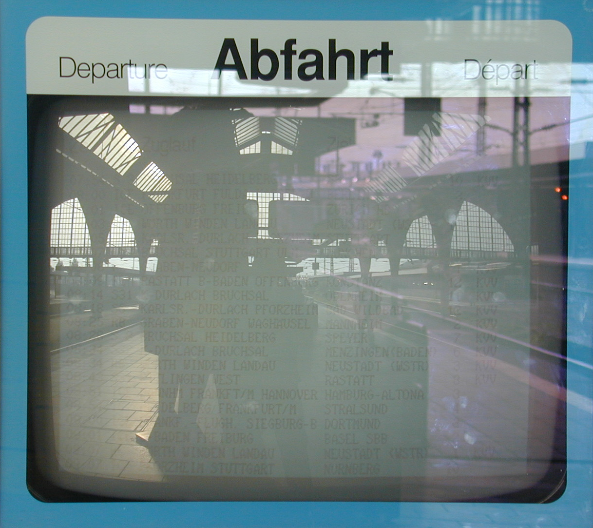 Railway intinerary information shown on a CRT display with reflections from ambient light sources (sky, lamps). The visual information can hardly be read (with very low contrast) only in the shadowed regions.